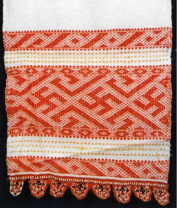 Velikiy Ustyug ornament, 19th century, swastika, Russia